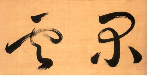 Zen calligraphy by Bankei Yotaku